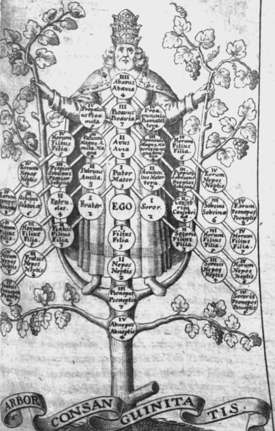 Johann Sithmann: Idea arboris consangvinitatis & affinitatis theoreticae & practicae. Stettin, 1657. 10 l. A.